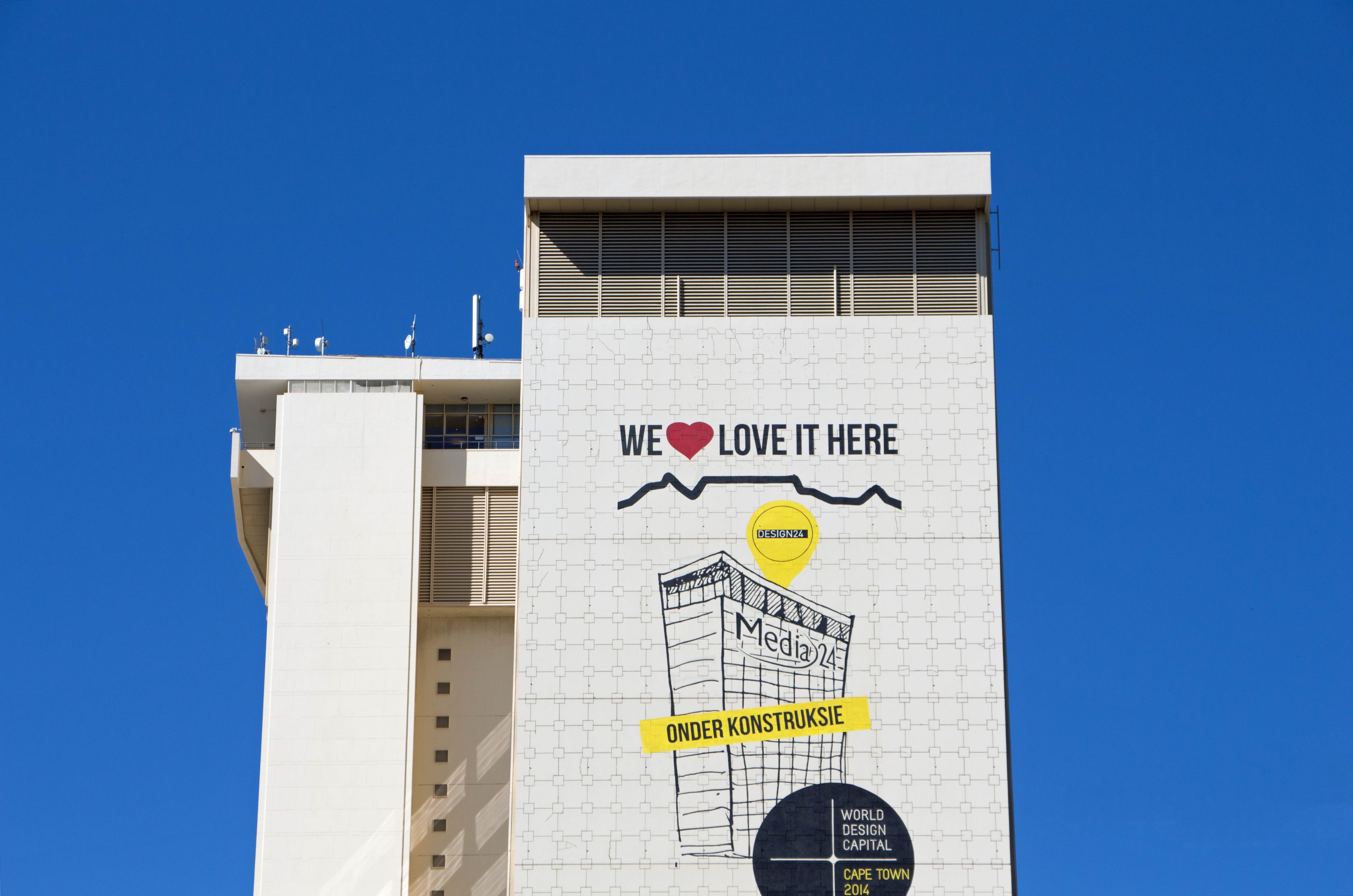 Naspers Centre, Cape Town, South Africa